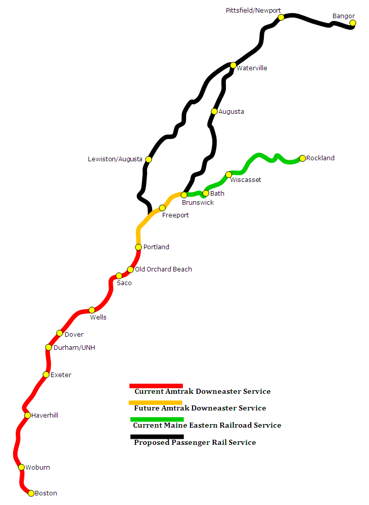 2009 map of the goals of Trainriders Northeast. The extension to Brunswick was completed in 2012.